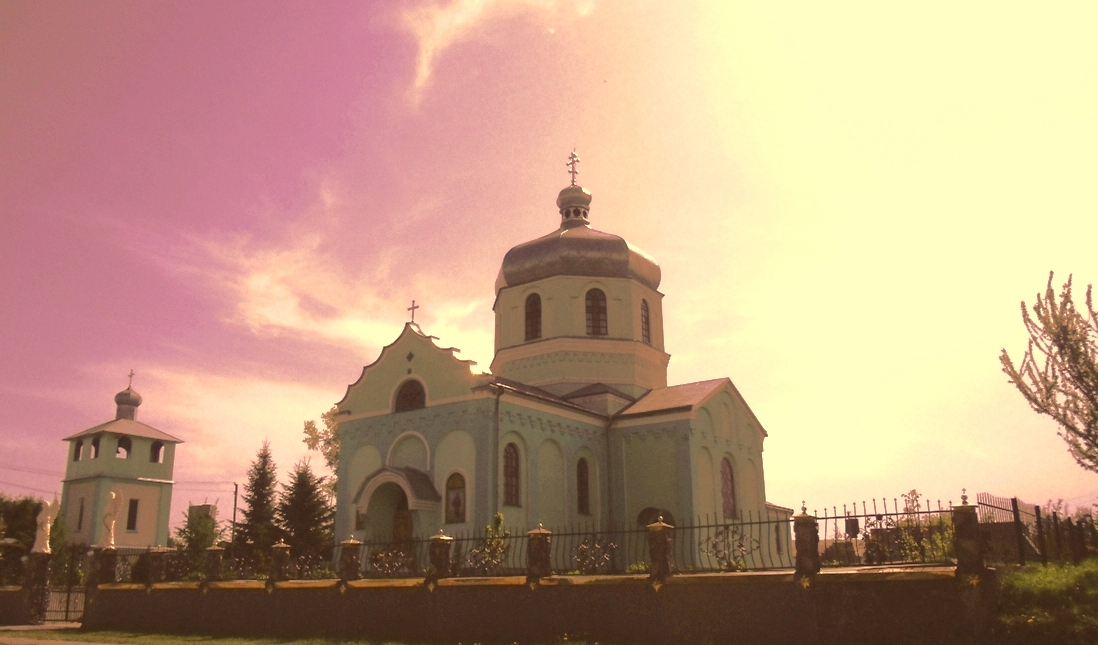 Church of Sts. Peter and Paul, Chernylyava.